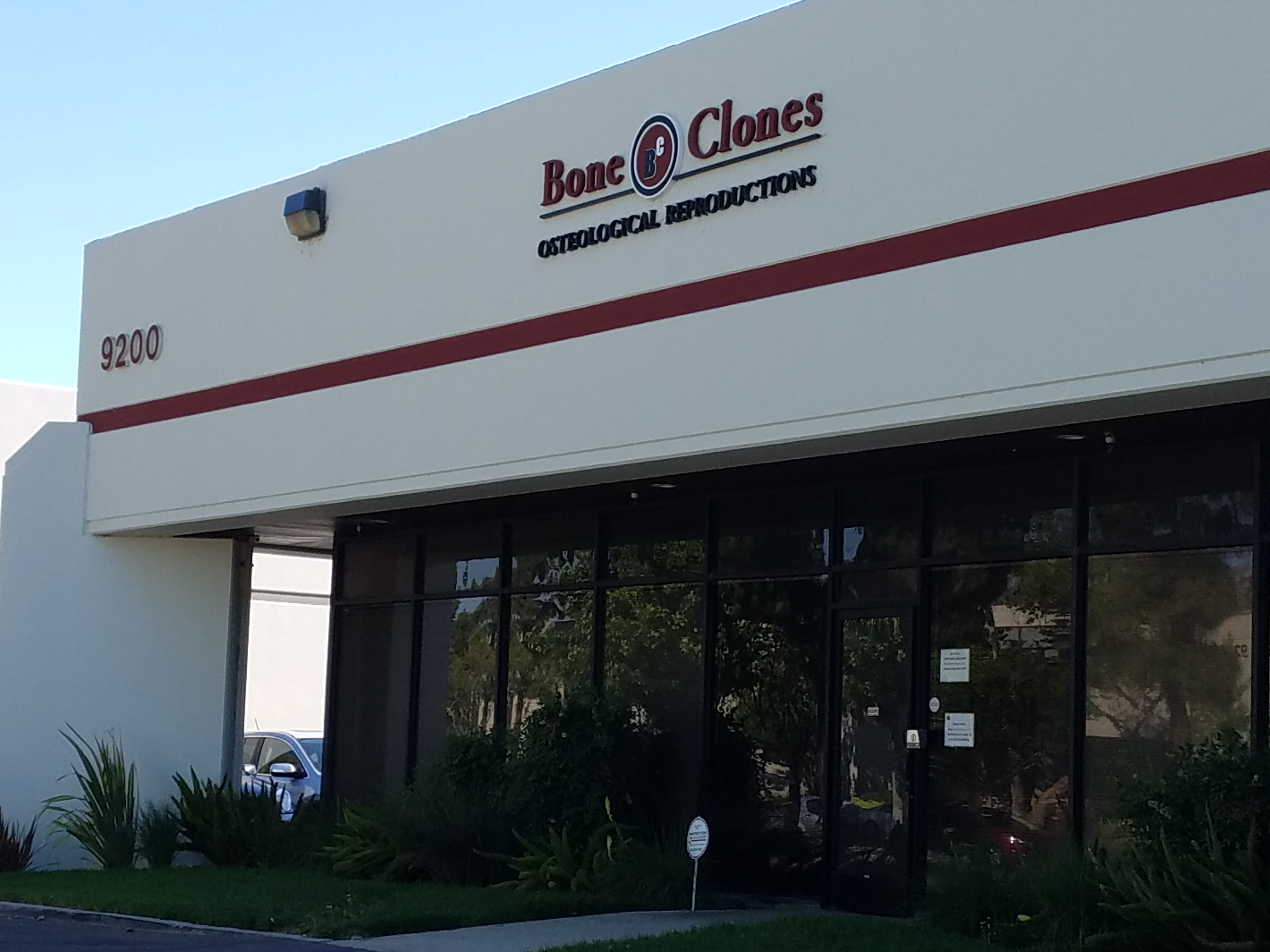 Bone Clones Building